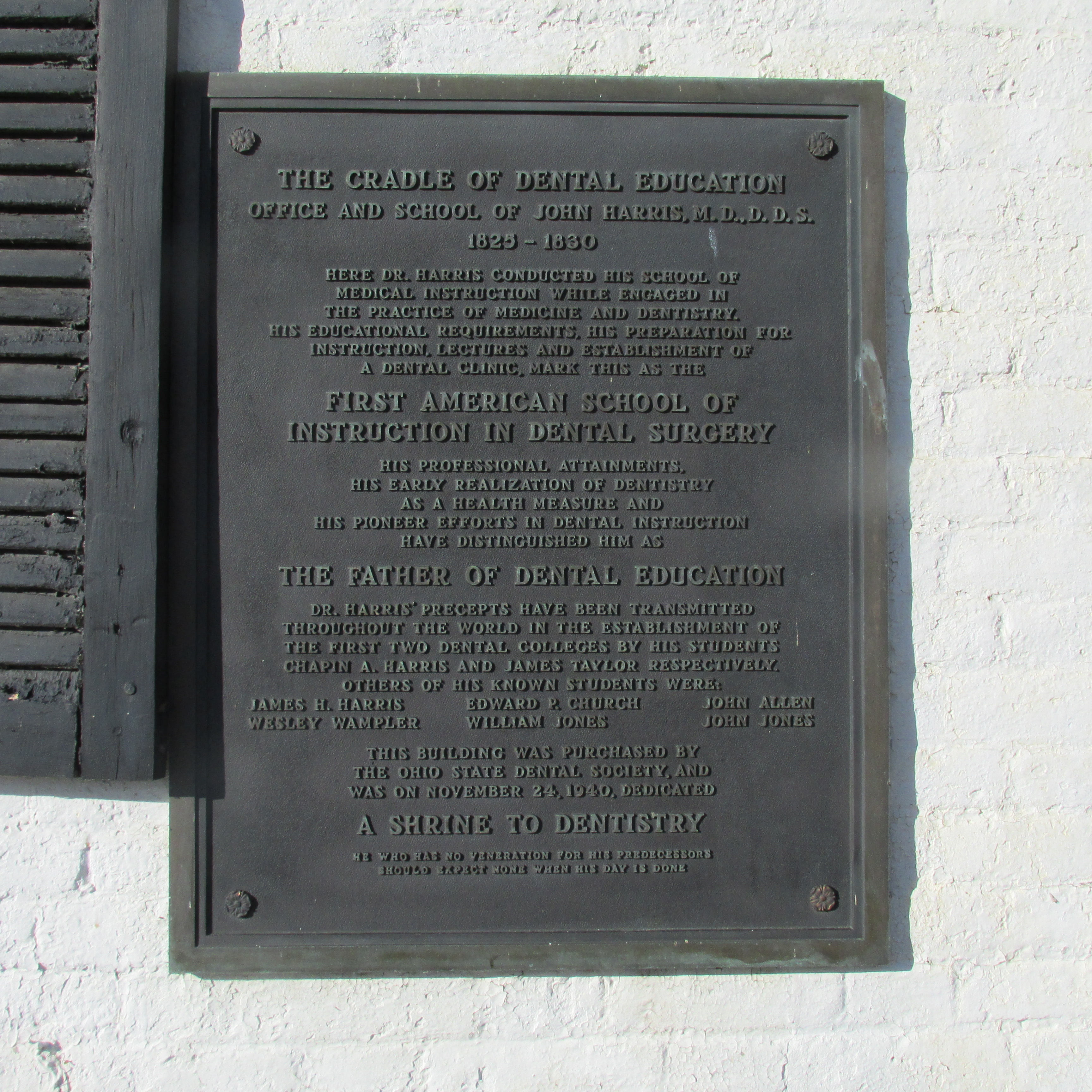 Plaque located at the Harris Dental Museum in Bainbridge, Ohio.